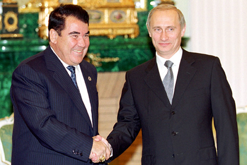 THE KREMLIN, MOSCOW. President Vladimir Putin and Turkmen President Saparmurat Niyazov.